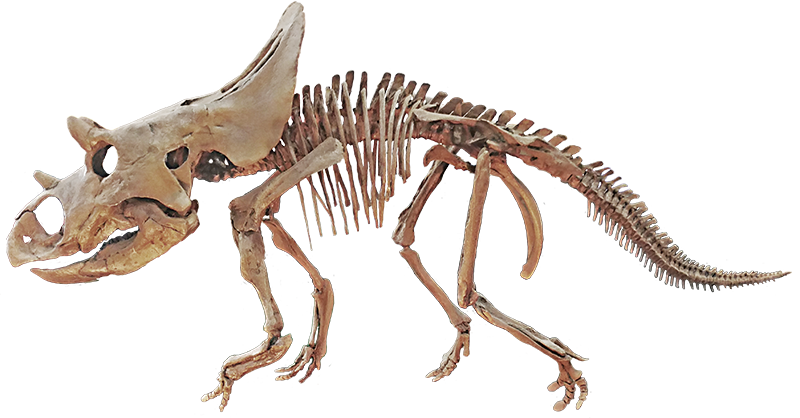 Juvenile Agujaceratops skeleton reconstructed, cast and mounted by Triebold Paleontology in Woodland Park, Colorado, USA